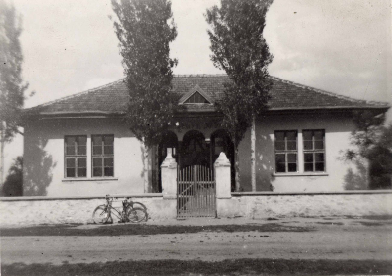 Old school in Stryama in 1940